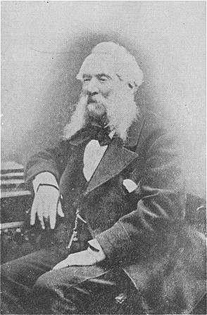 SIGNOR LAMPERTI, COACH TO EMMA ALBANI